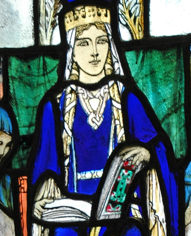 St. Margareths Chapel, Edinburgh